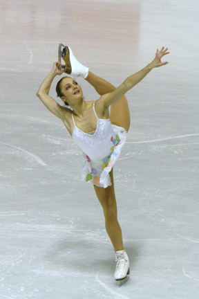 2008 European Figure Skating Championships - Sarah Meier